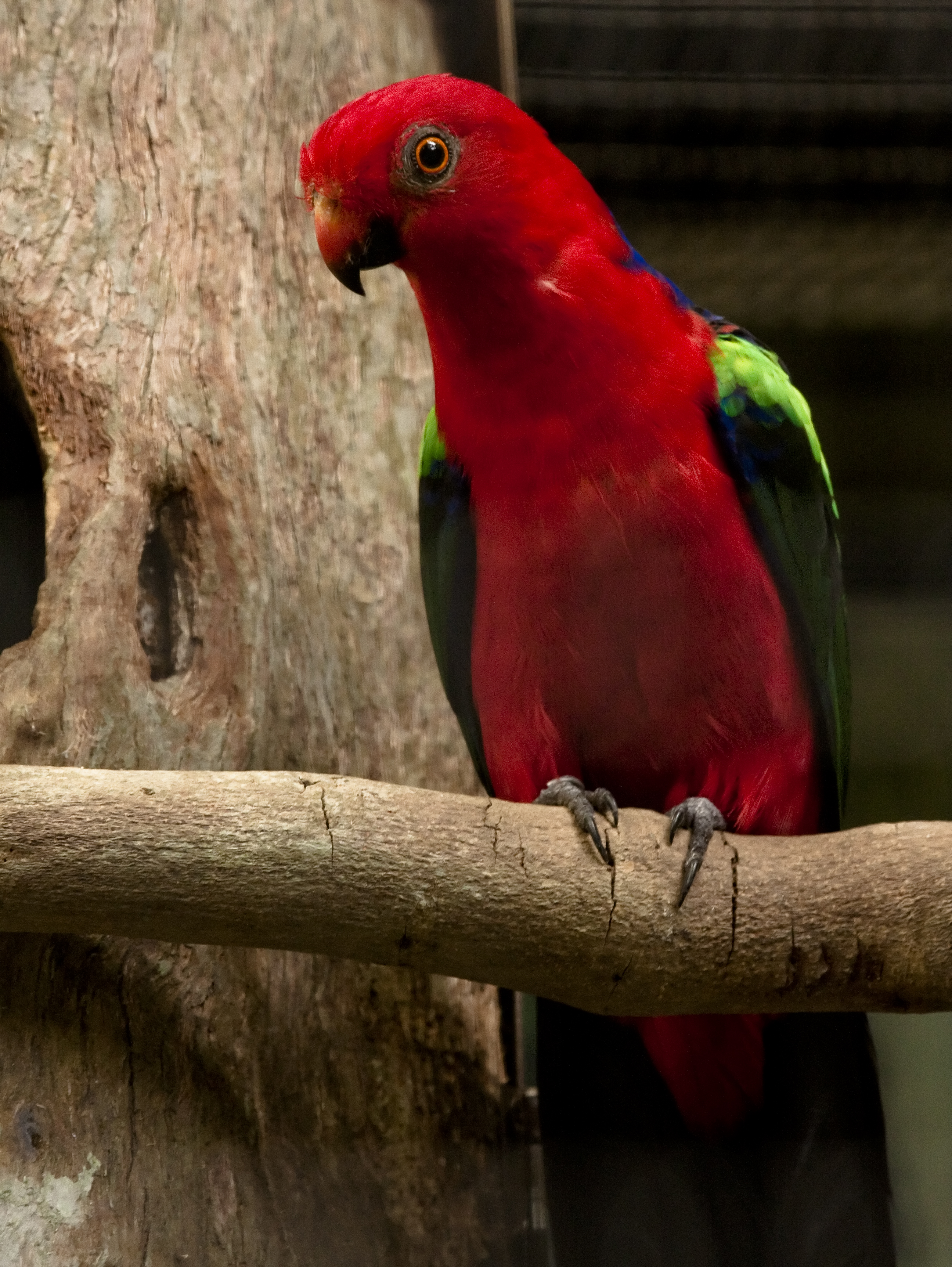 A male Papuan King Parrot at Jurong Bird Park, Singapore.